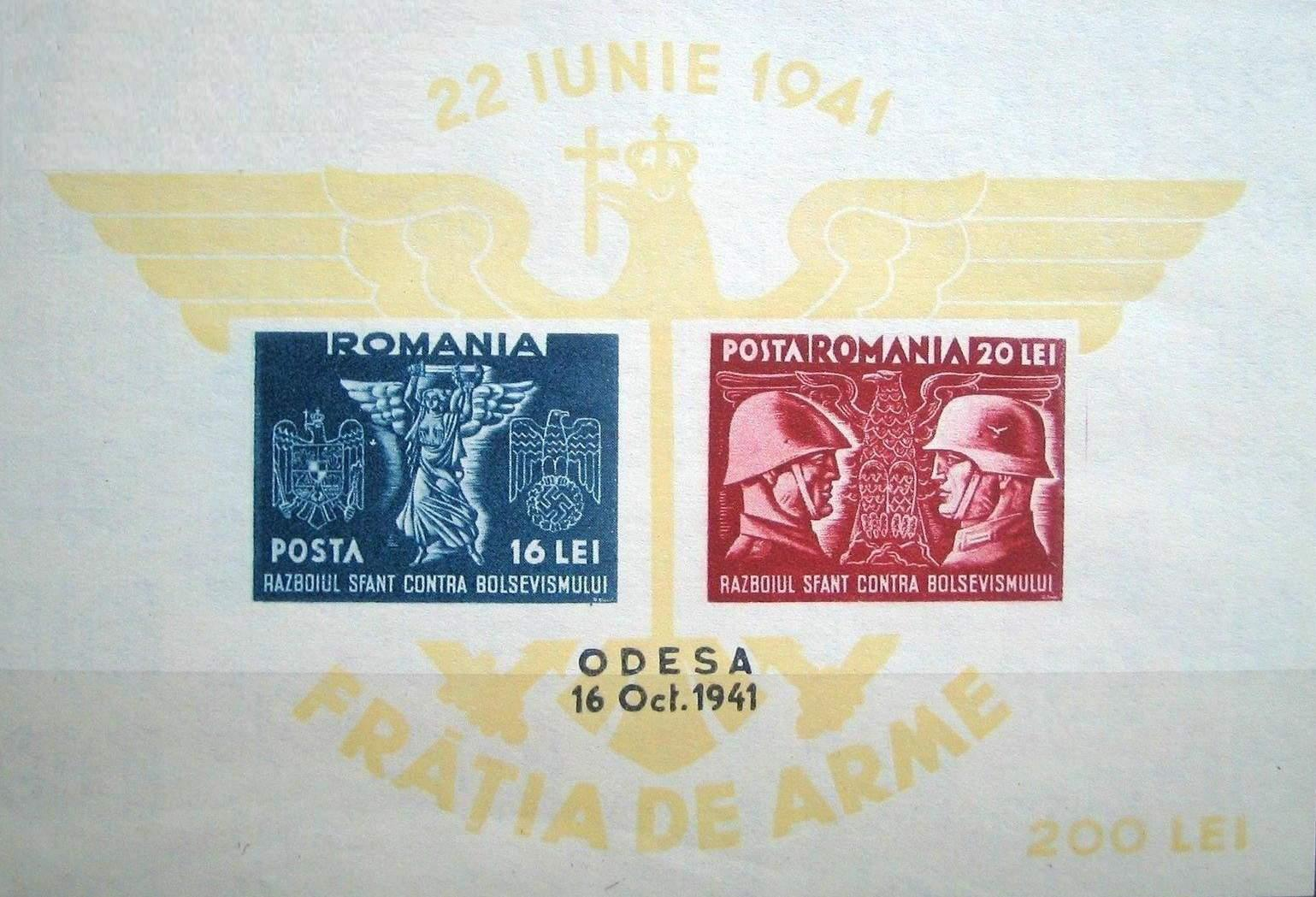 Romanian stamps from 1941